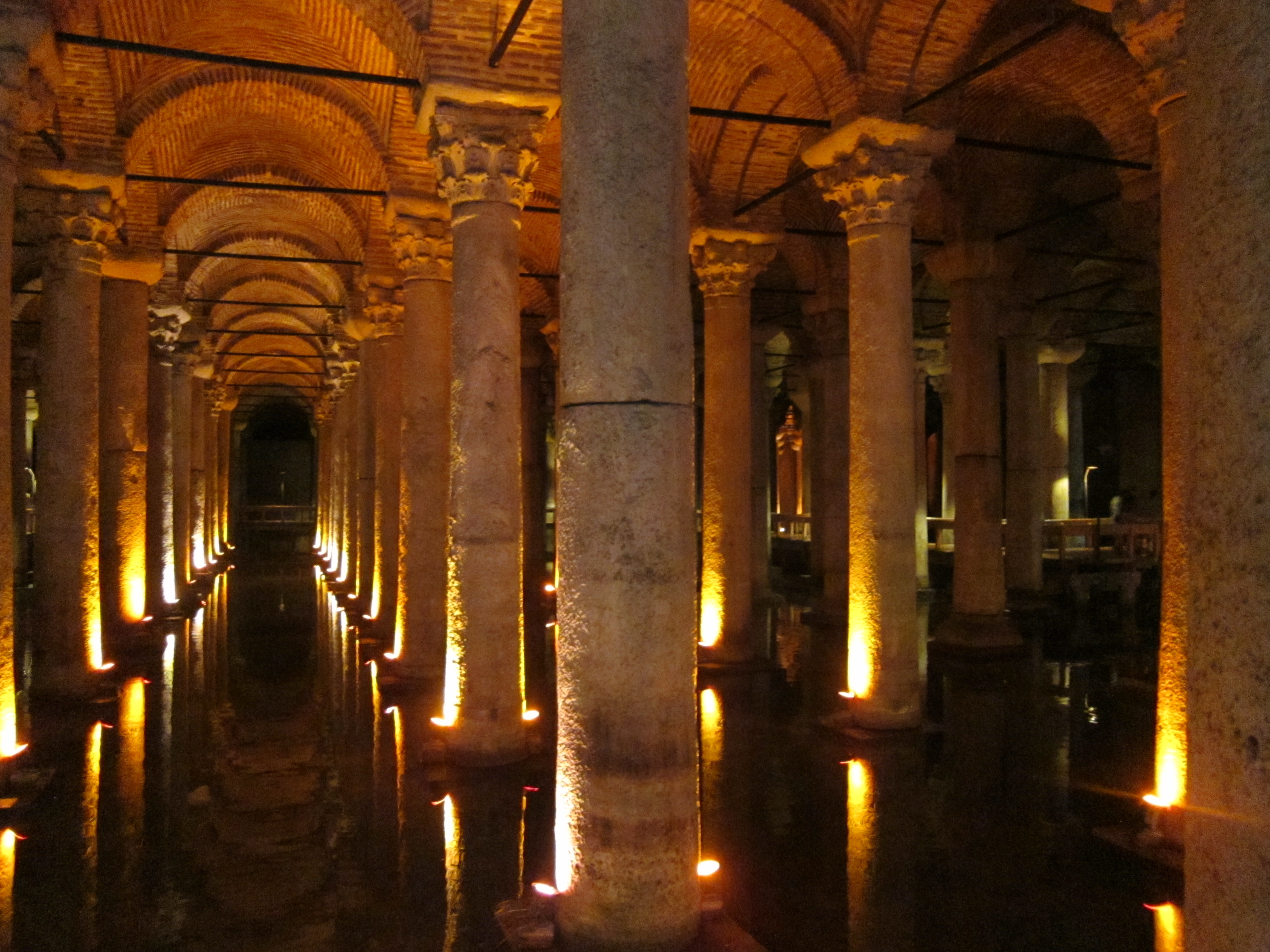 土耳其地下水宮殿